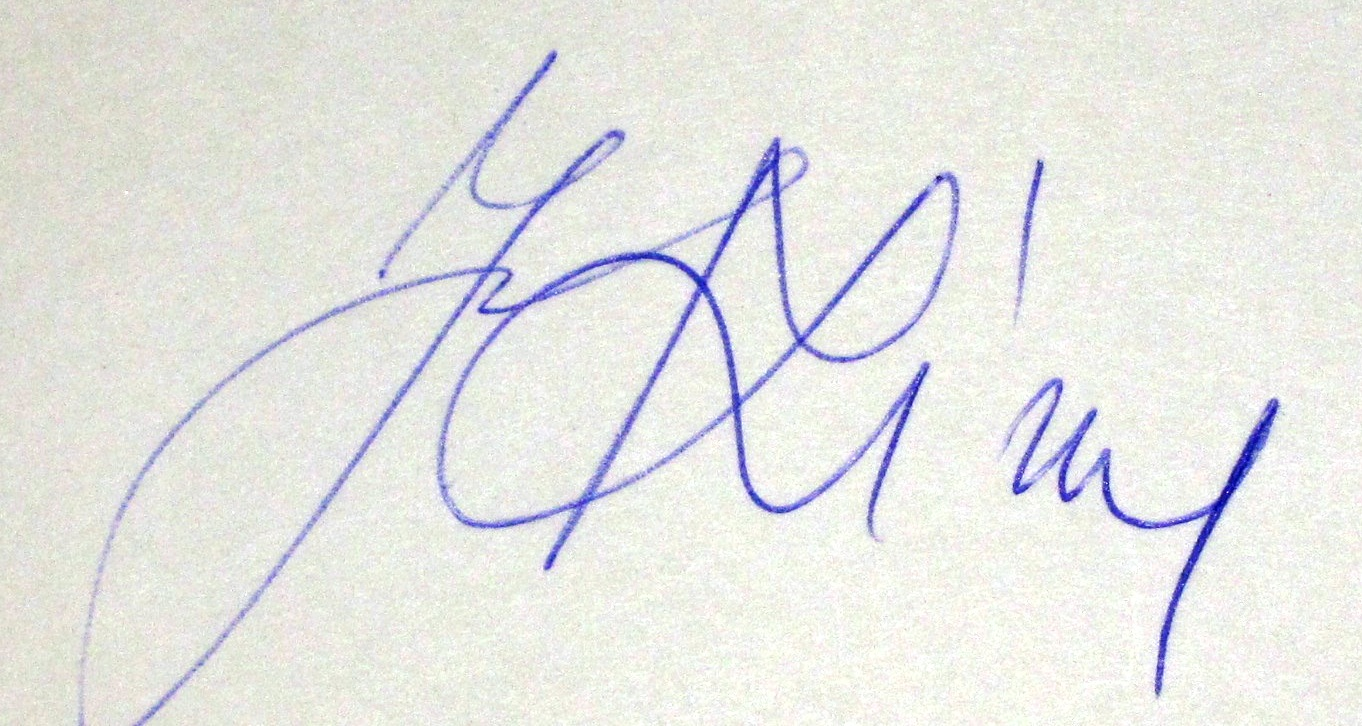 Autograph of Josef Zíma, Czech vocalist (2005)